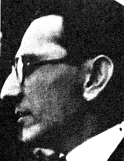 Gabriel Turbay Abunader, colombian politician (1901-1947)